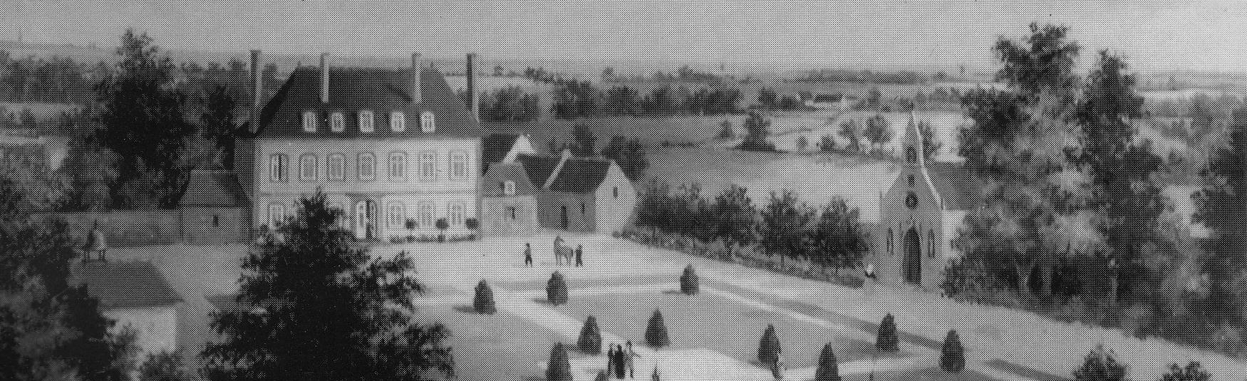 drawing of la ville bague